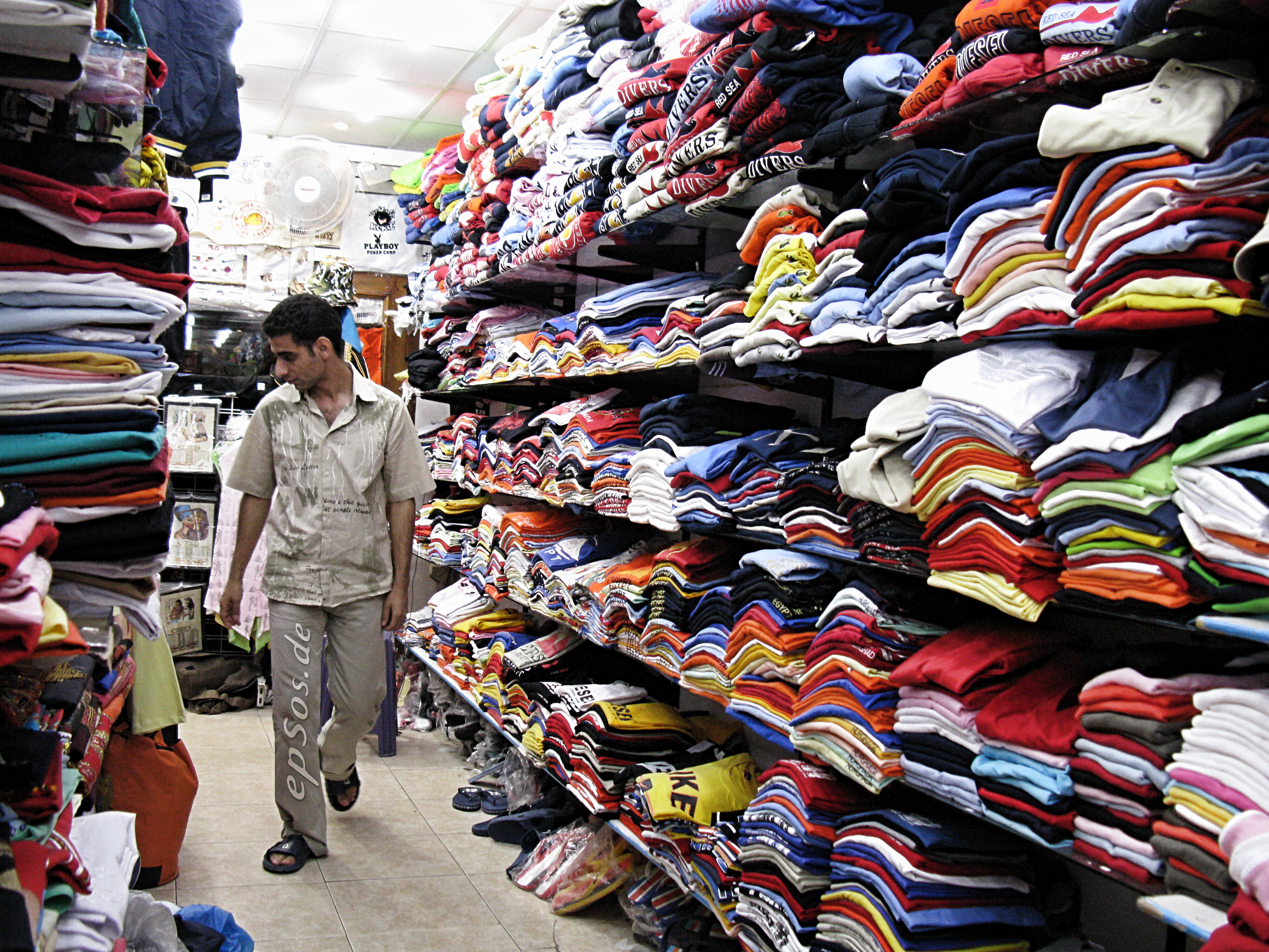 Free picture of casual men shopping for new clothing accessories with male passion for fashion. Esta Hombre is an Arab designer in Egypt who is looking to find clothes for men who love to wear cloth from the wholesale store of urban retail style. He is searching for perfect urban outfits with trendy T-Shirts on the shelves of abundance in the professional business of an apparel merchant. This foto represents consumption.